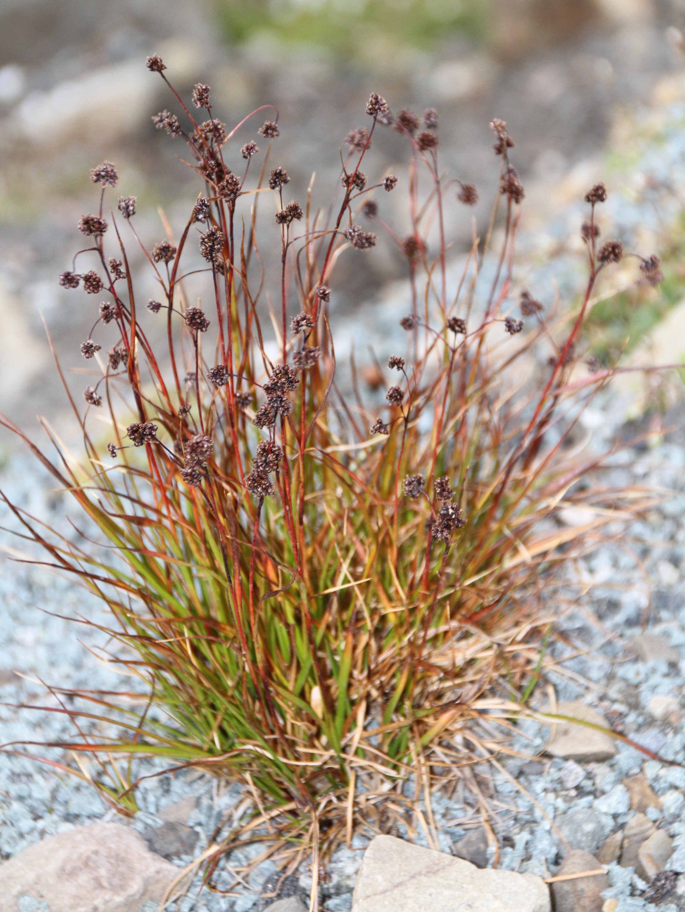 Photo of plant nearby Longyearbyen, Spitsbergen (Norway)